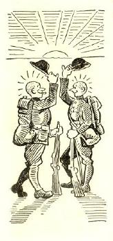 World War I line drawing cartoon. Two soldiers with shaved heads tip their helmets. Presumably goes with line of very popular song of the day, "Good Morning, Mr. Zip-Zip-Zip, with your hair cut just as short as mine!"